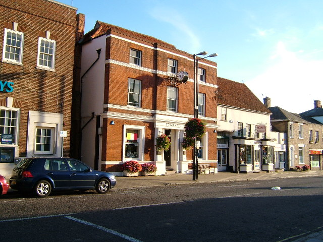 Town Hall, Witham, Essex. Having a history of almost 500 years, the current Town Hall was once The George Coaching Inn, a bank, and has had other commercial uses. It is situated in Newland Street (B1389) opposite the junction with Guithavon Street.